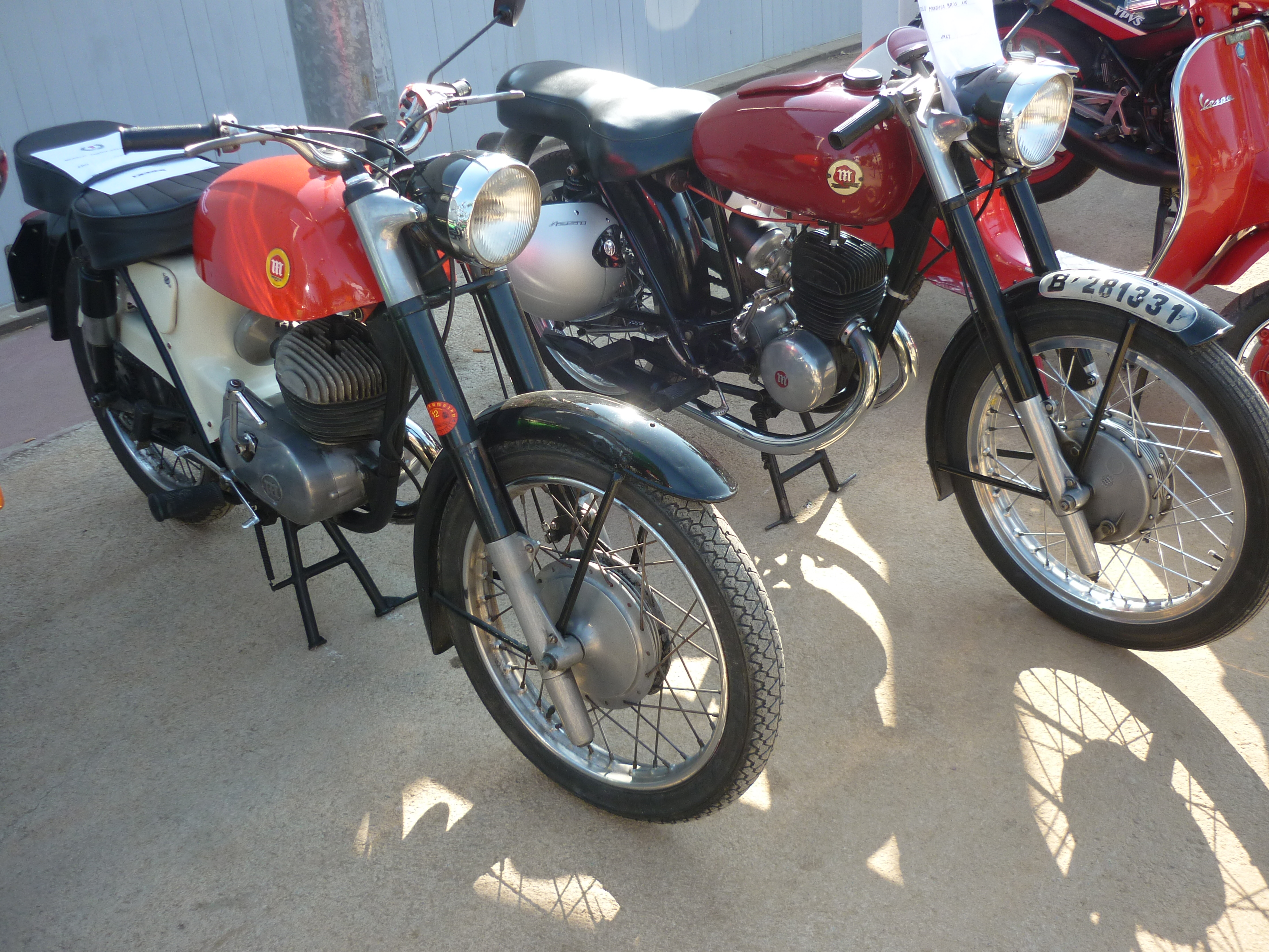 Two Montesa: An Impala Comando 175cc (1967) and a Brio 110 (1962).Motorcycle meeting held on September 10, 2011 in Can Carrancà (near the Derbi factory in Martorelles, Catalonia).